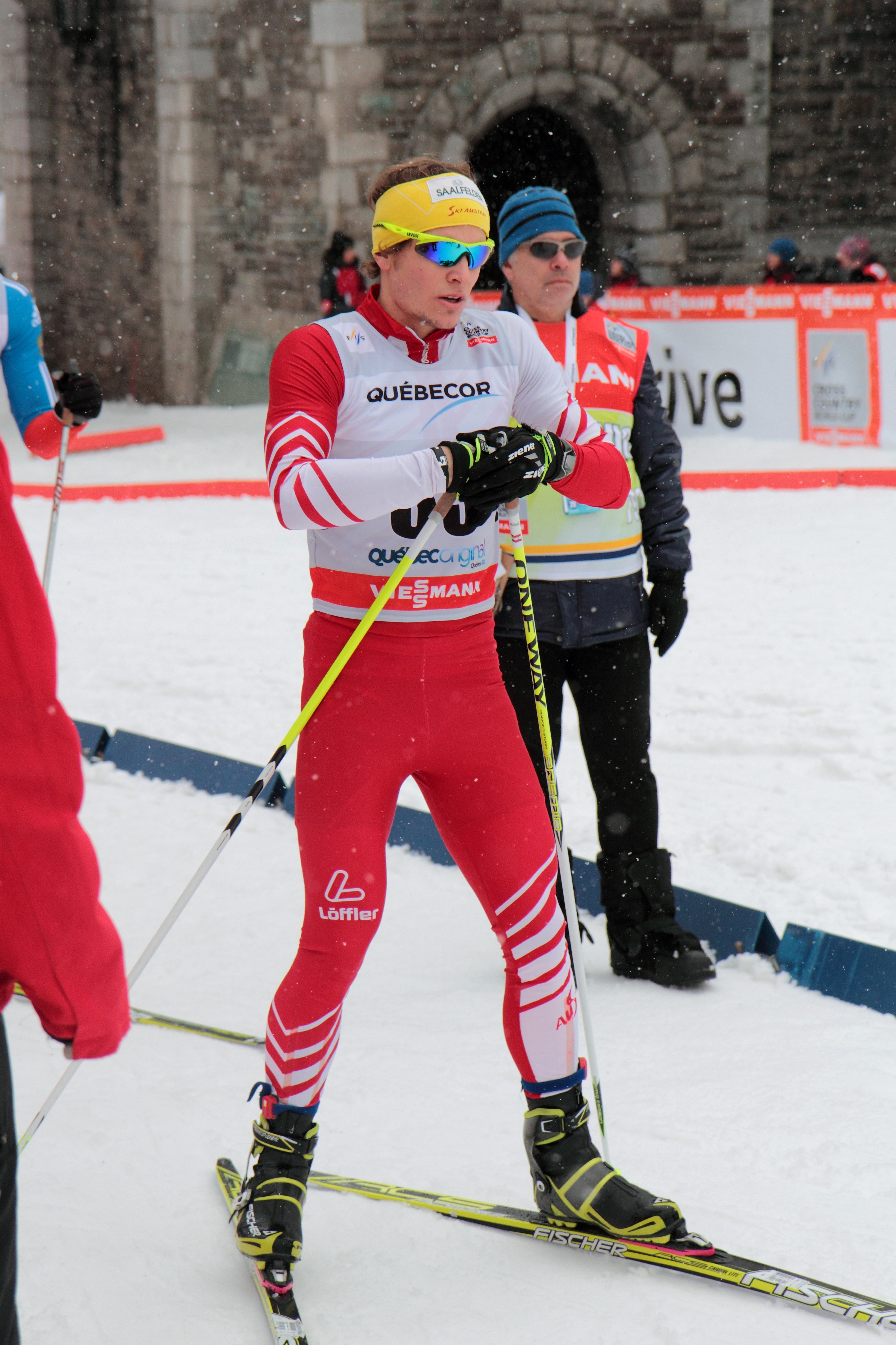 Bernhard Tritscher, FIS Cross-Country World Cup 2012, Quebec, Canada.